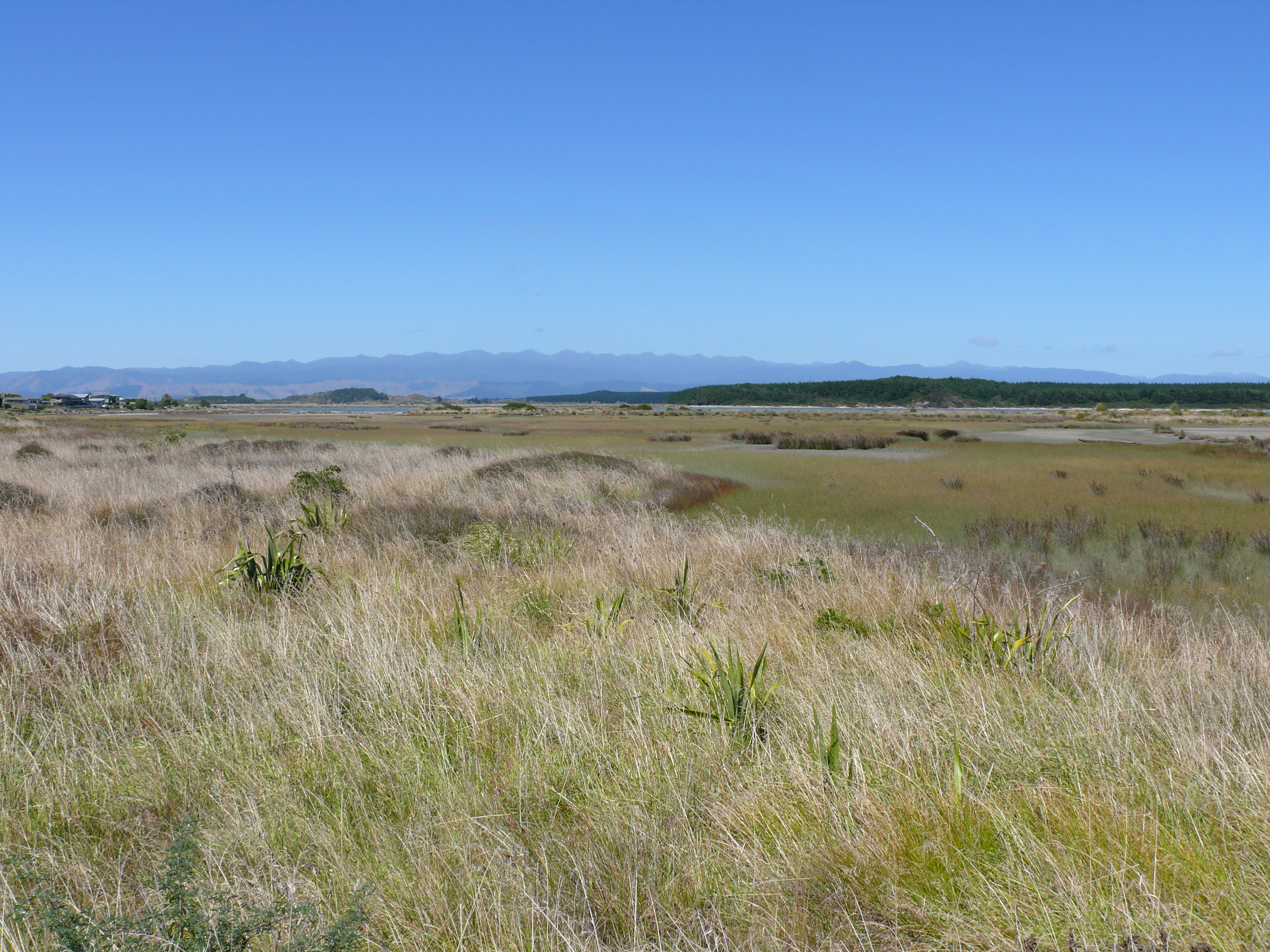 Manawatu Estuary, at Foxton Beach, Manawatu, New Zealand.